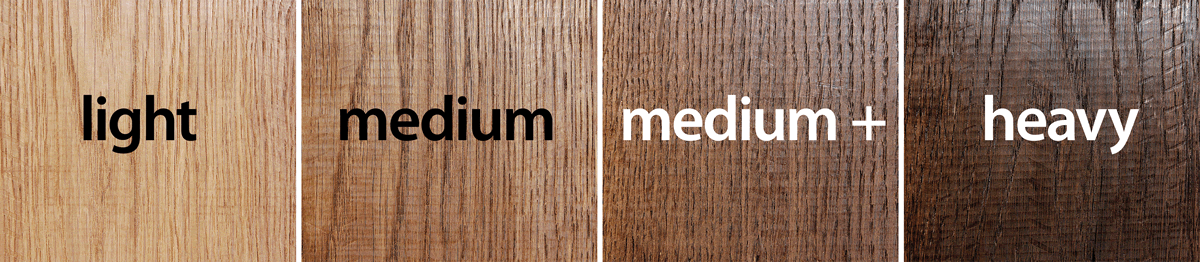 Typical standard toasting levels for wood in the manufacturing of wine barrels and alternatives (staves, chips) are four: light, medium, medium plus and heavy. Toneleria Nacional offers convection toasting in 5 levels for French oak and 5 for American oak, which needs 5 degrees more to achieve similar organoleptic results. CT1: F190/A195, CT2: F200/A205, CT3: F210/A215, CT4 F230/A235 and CT5: F240/A245. These toasting recipes apply to all woods, including the convection toasted barrels Odysé and Ambrosia.